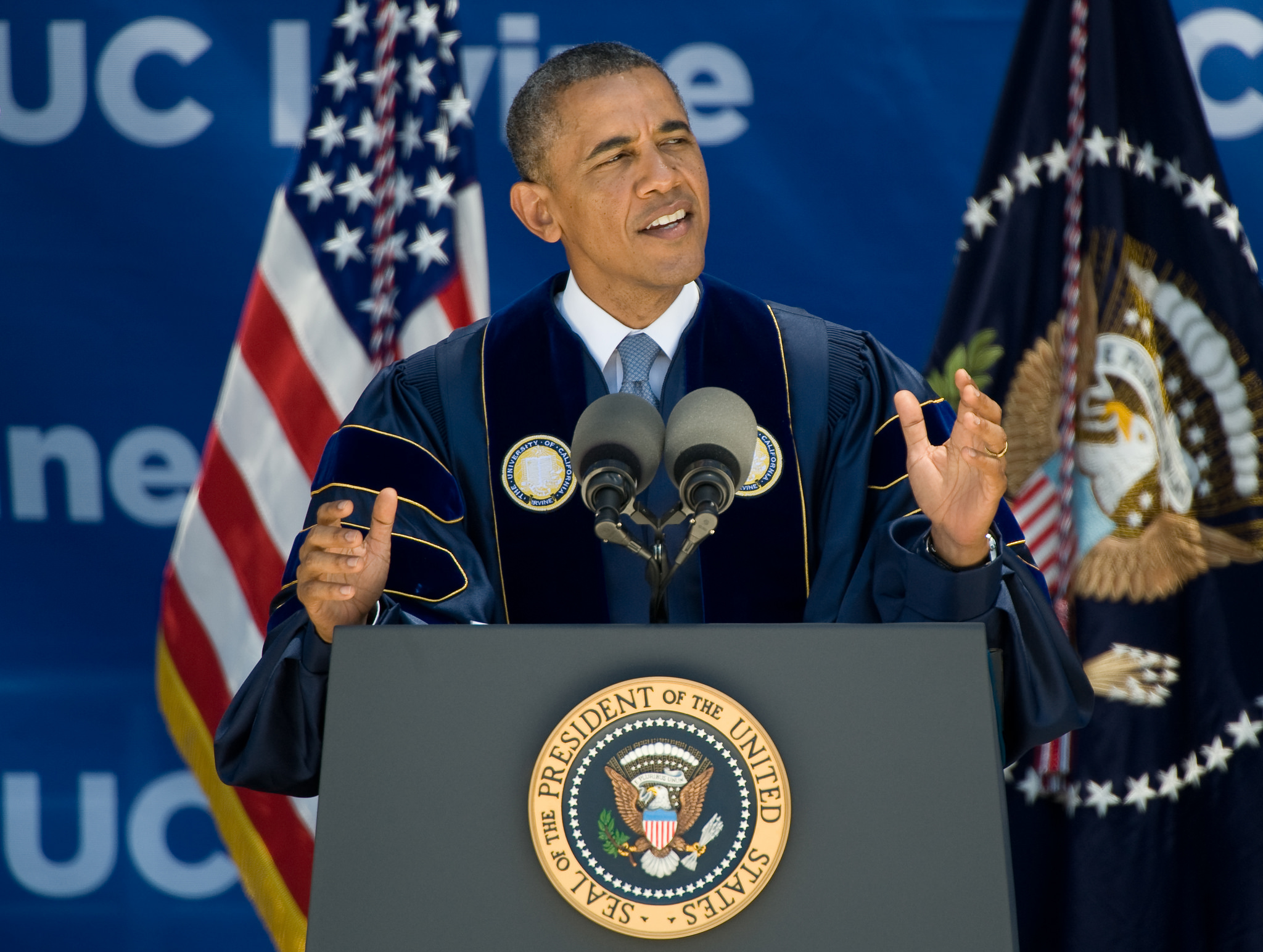 In a nearly 30-minute talk that received three standing ovations, Obama gave a shout-out to the UCI baseball team playing in the College World Series in Omaha, Neb.; acknowledged the campus’s Guinness world record for largest water pistol fight; and noted the 65 veterans and four ROTC members among the assembled students. And he encouraged graduates to take on the challenges of climate change in the same way the nation answered the call to reach the moon in the 1960s.